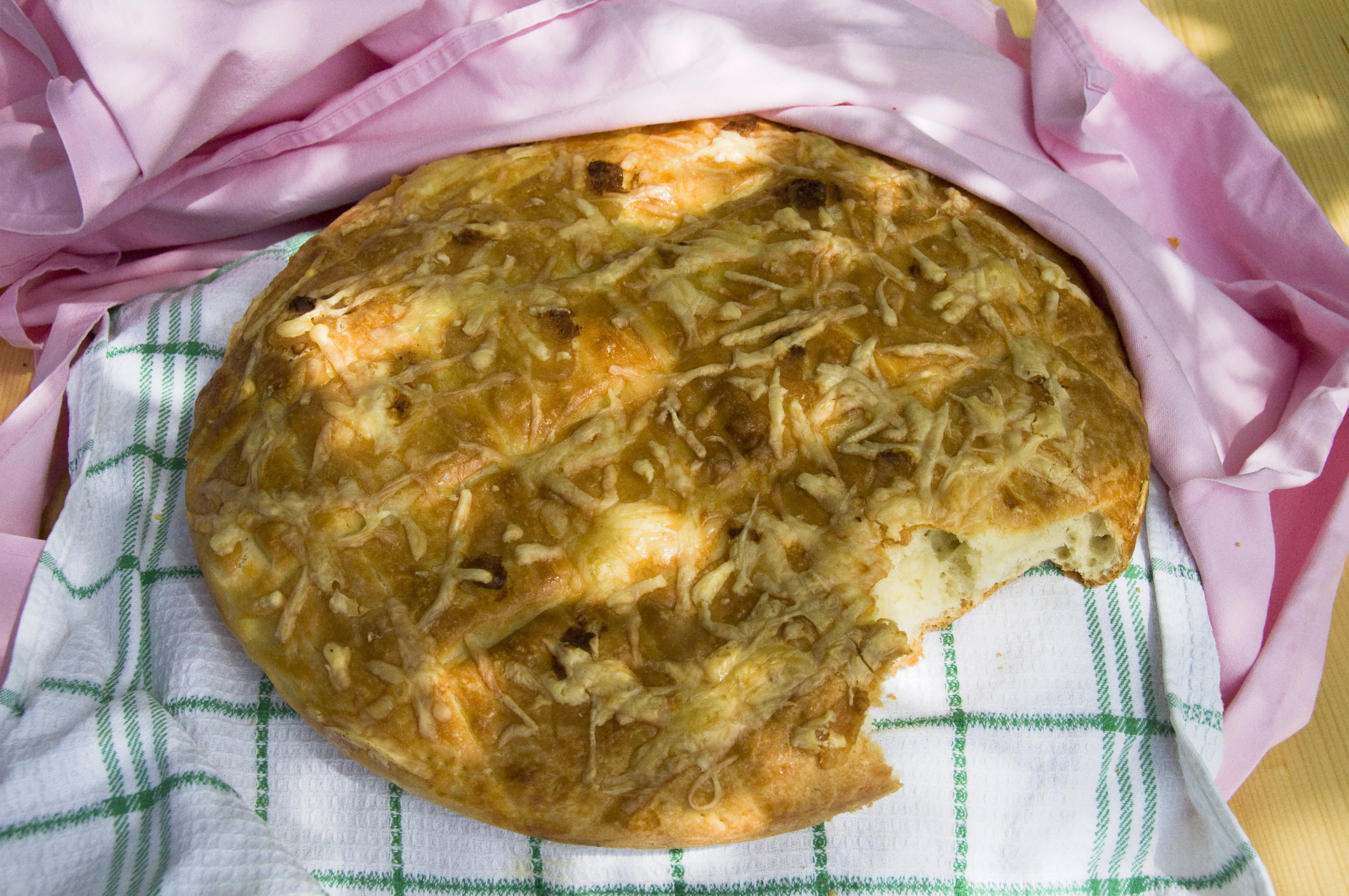 Belokranjska pogača - traditional flat kind of bread from Bela Krajina region, Slovenia